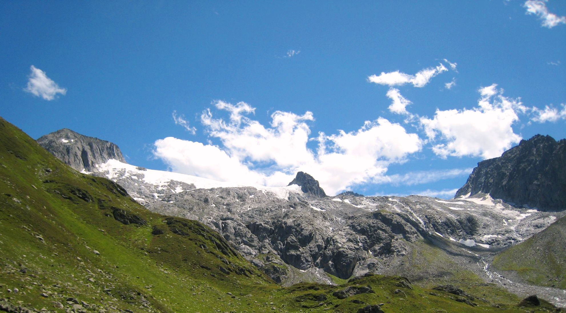 The end of the Glacier Glatscher da Medel on the north side of Piz Medel, Graubünden, Switzerland; Fil Liung (3062 m) to the left, the rock of Refugi da Camutschs (2950 m) in the center, crest of Davos la Buora (2922 m) to the right.